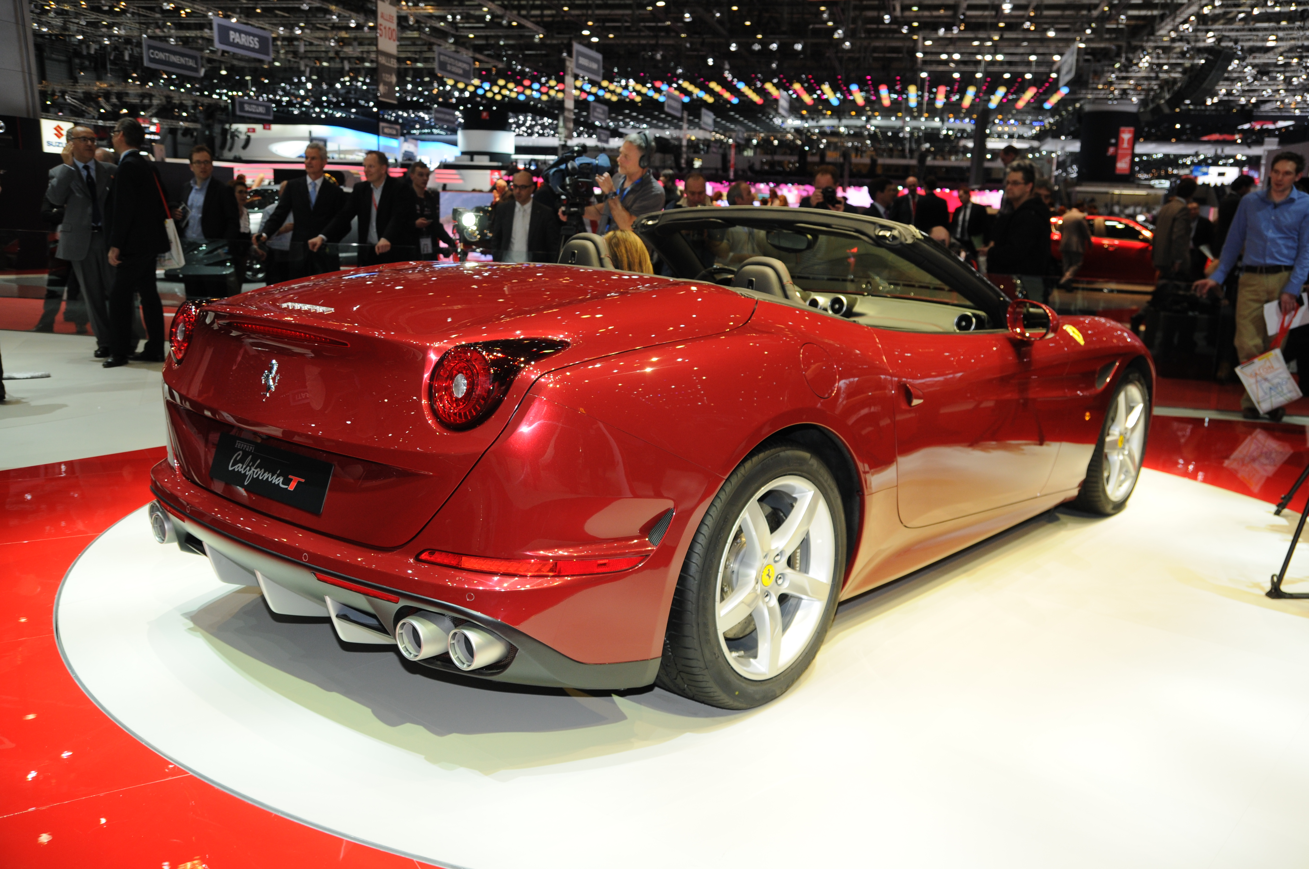 Geneva Motor Show 2014 (photo taken on the first press day)